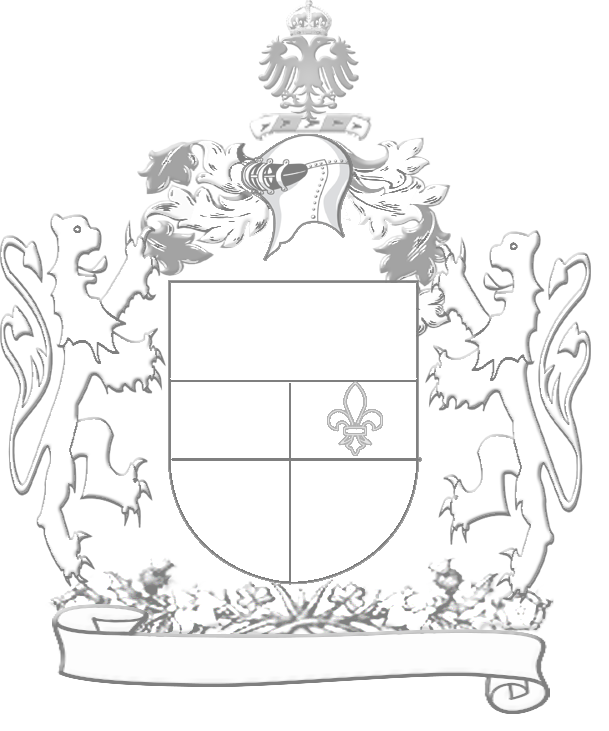 Generic coat of arms.